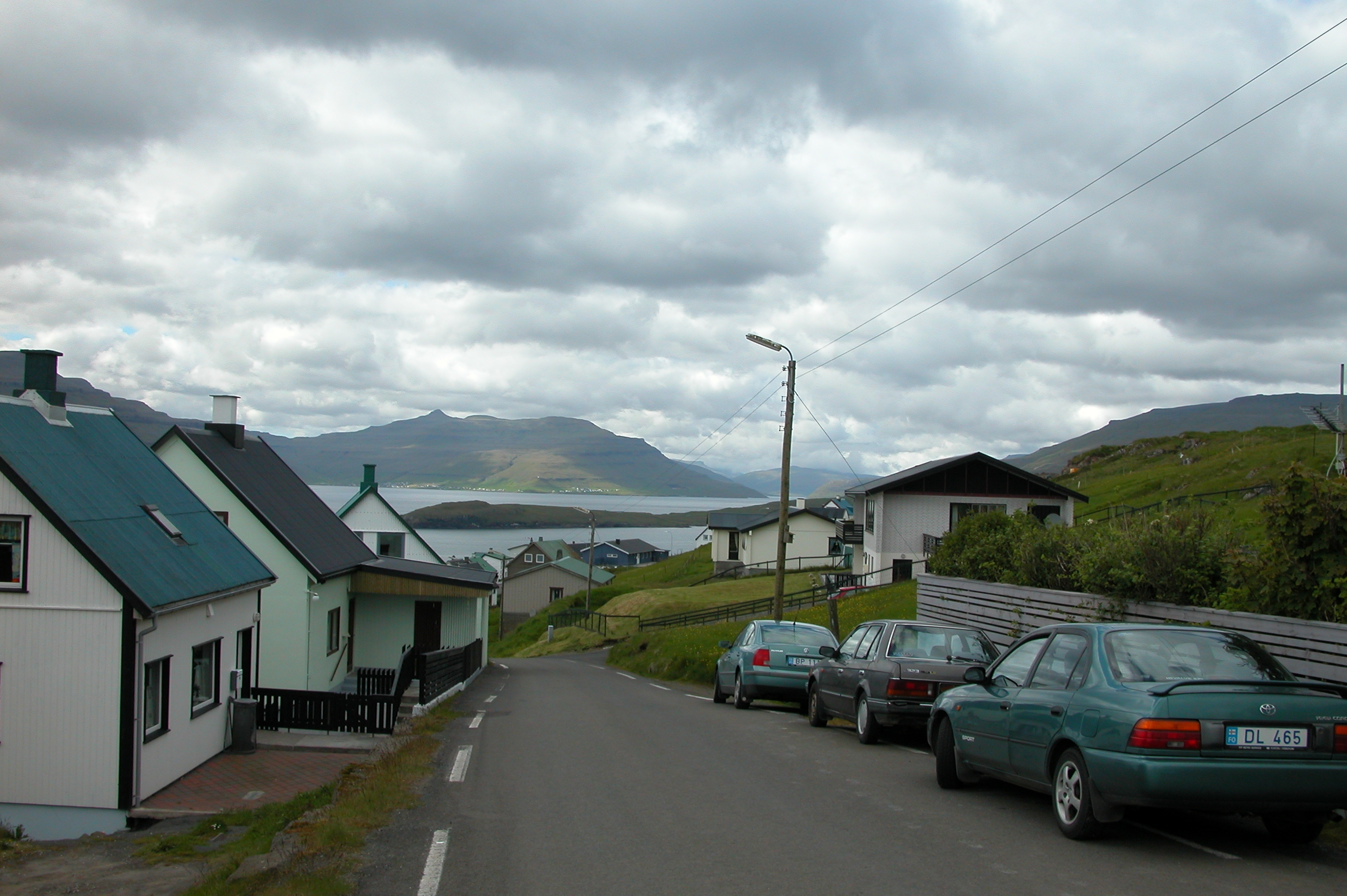 Nes (Eysturoy) at the Skálafjørður in Eysturoy, Faroe Islands